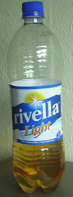 Image of product